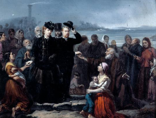 King Louis I of Portugal and Queen Maria Pia giving out alms to the poor, in Oporto, in 1872.